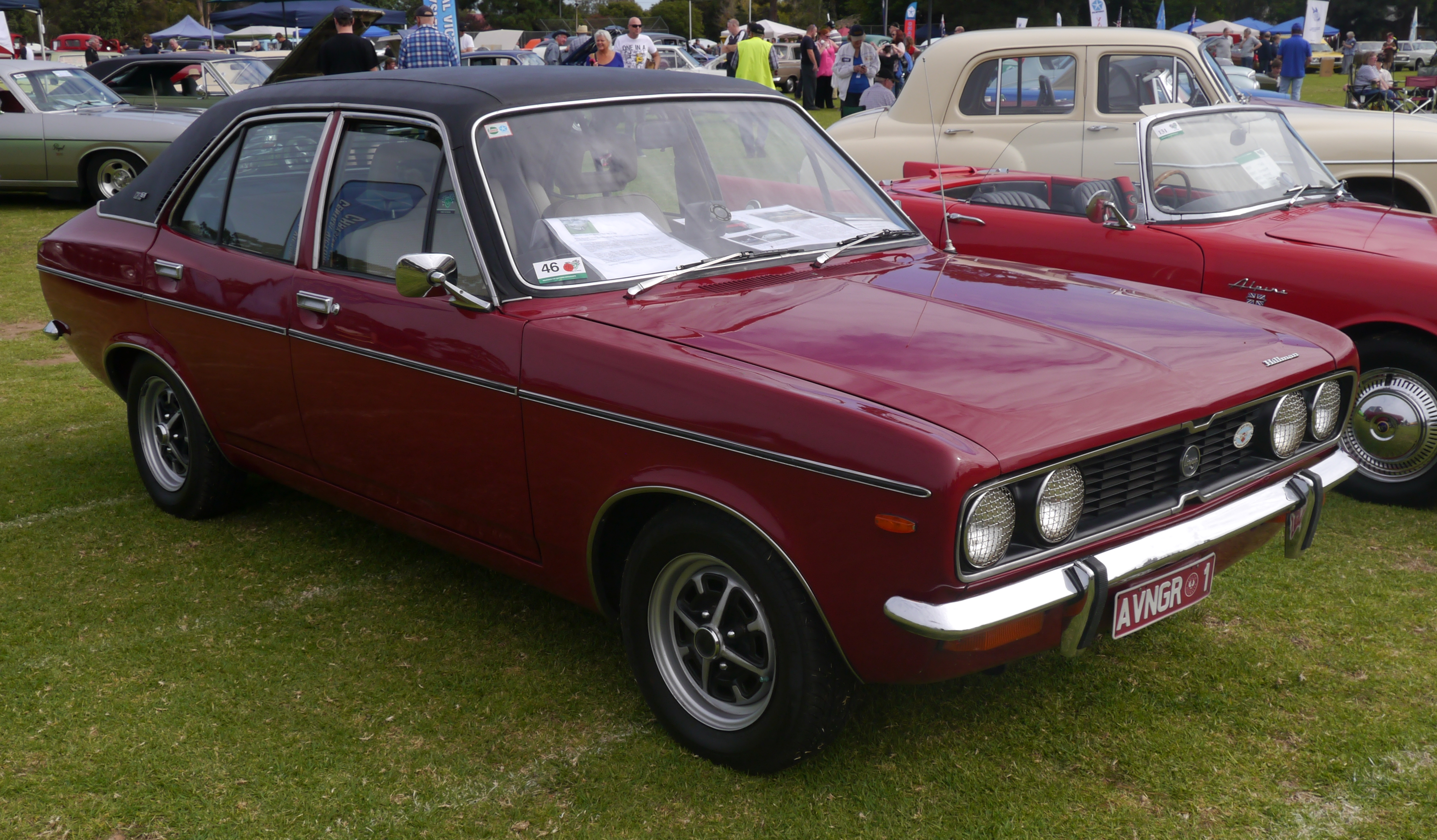 These were never sold in Australia. I've also photographed this car before, some 3 or 4 years ago at another car show.